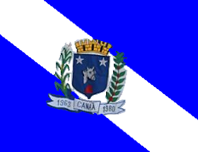 Flags of the city of Canaã, Minas Gerais, Brazil.